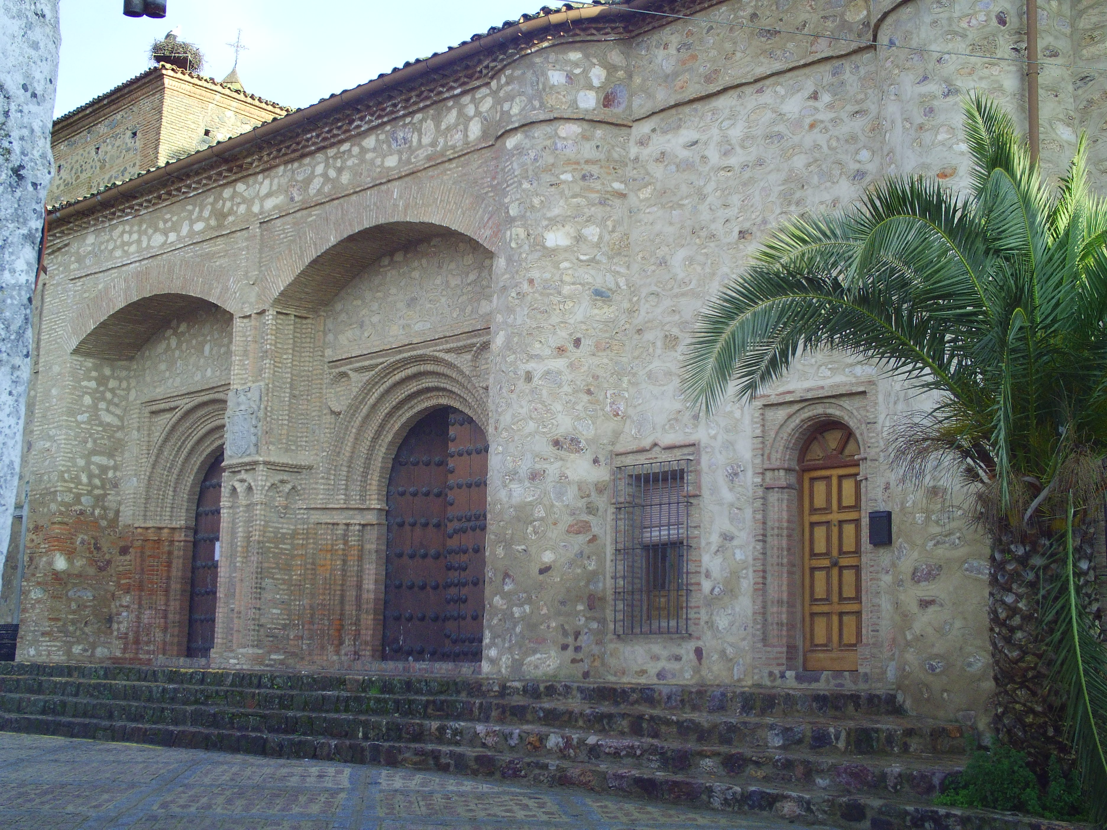 Church of Herrera